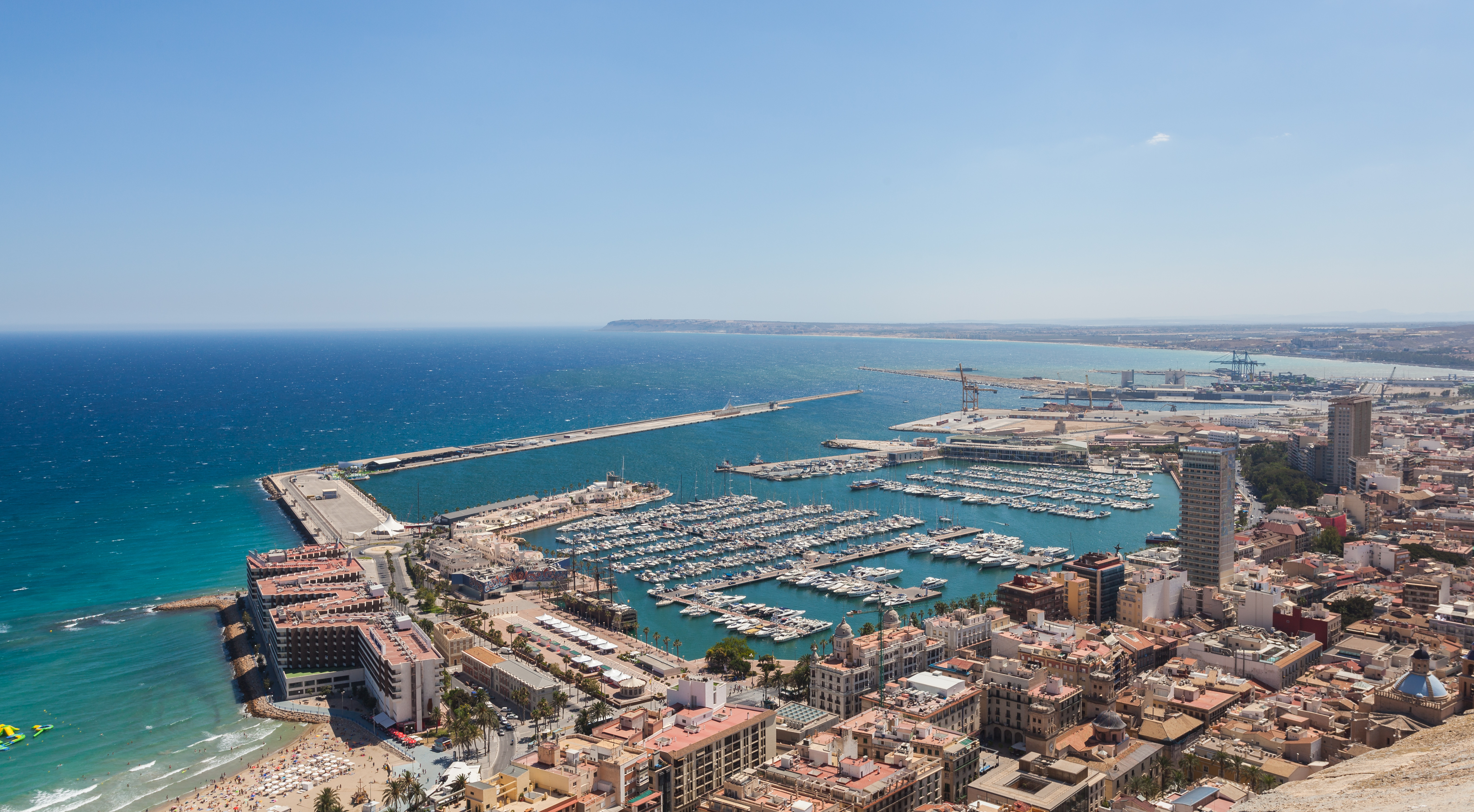 View of Alicante, Spain